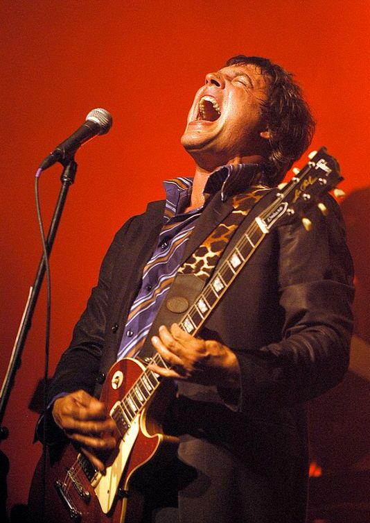 Jean Leloup by Victor Diaz Lamich